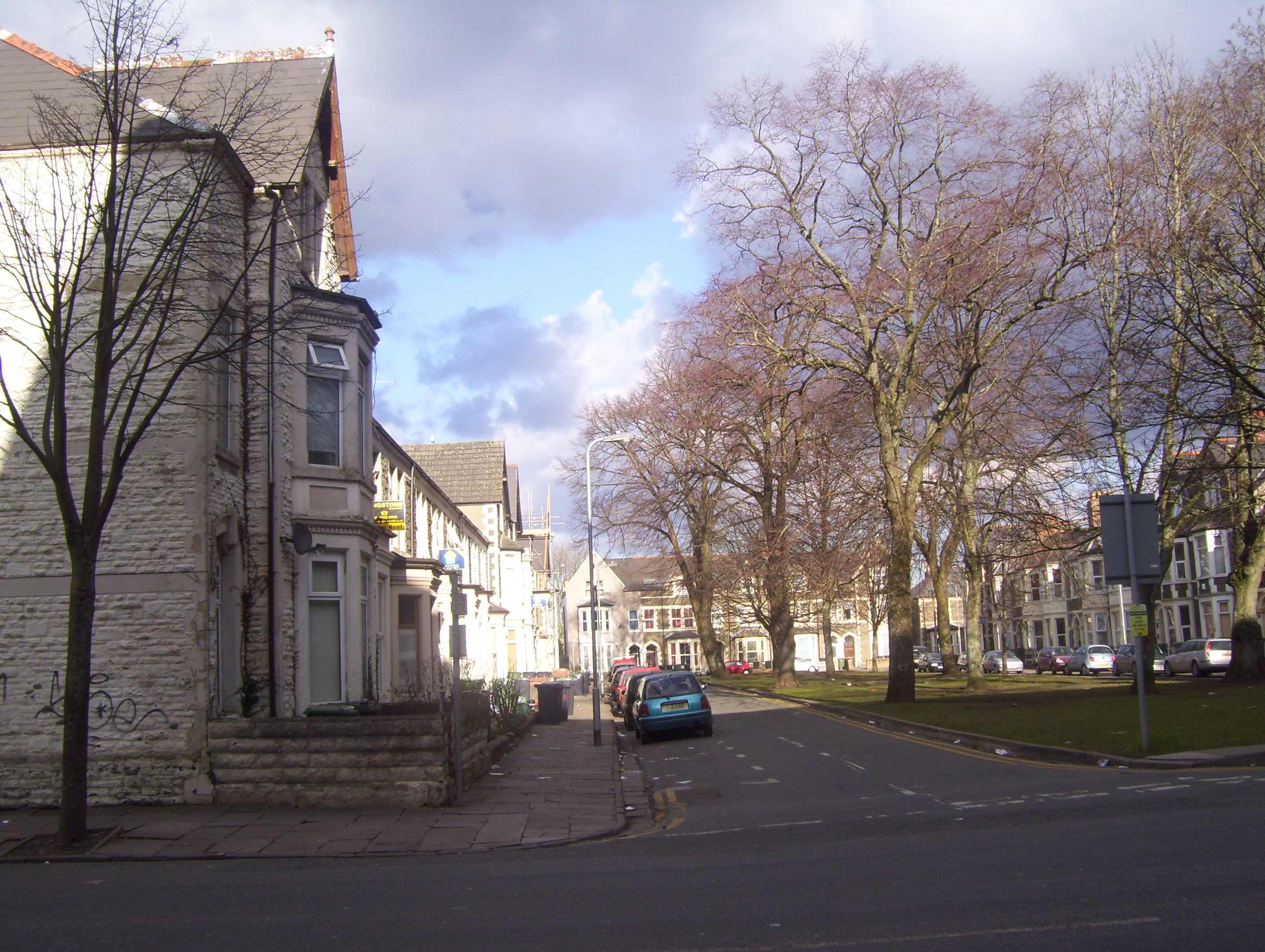 Ruthin Gardens near to Cathays railway station The trees in the centre of the square enhance this locality; the buildings are Victorian but still do what they are originally built for.